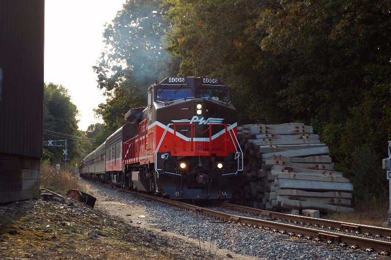 Providence and Worcester GE Locomotive #4006 seen in Plainfield, CT with the Northbound portion of the Mass Bay Rail Enthuiasts Excursion Train "Advance Willimantic Special" on Saturday, October 13, 2012 at about 3:30 PM